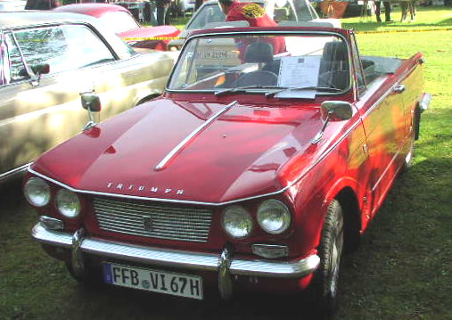 Triumph Vitesse Convertible